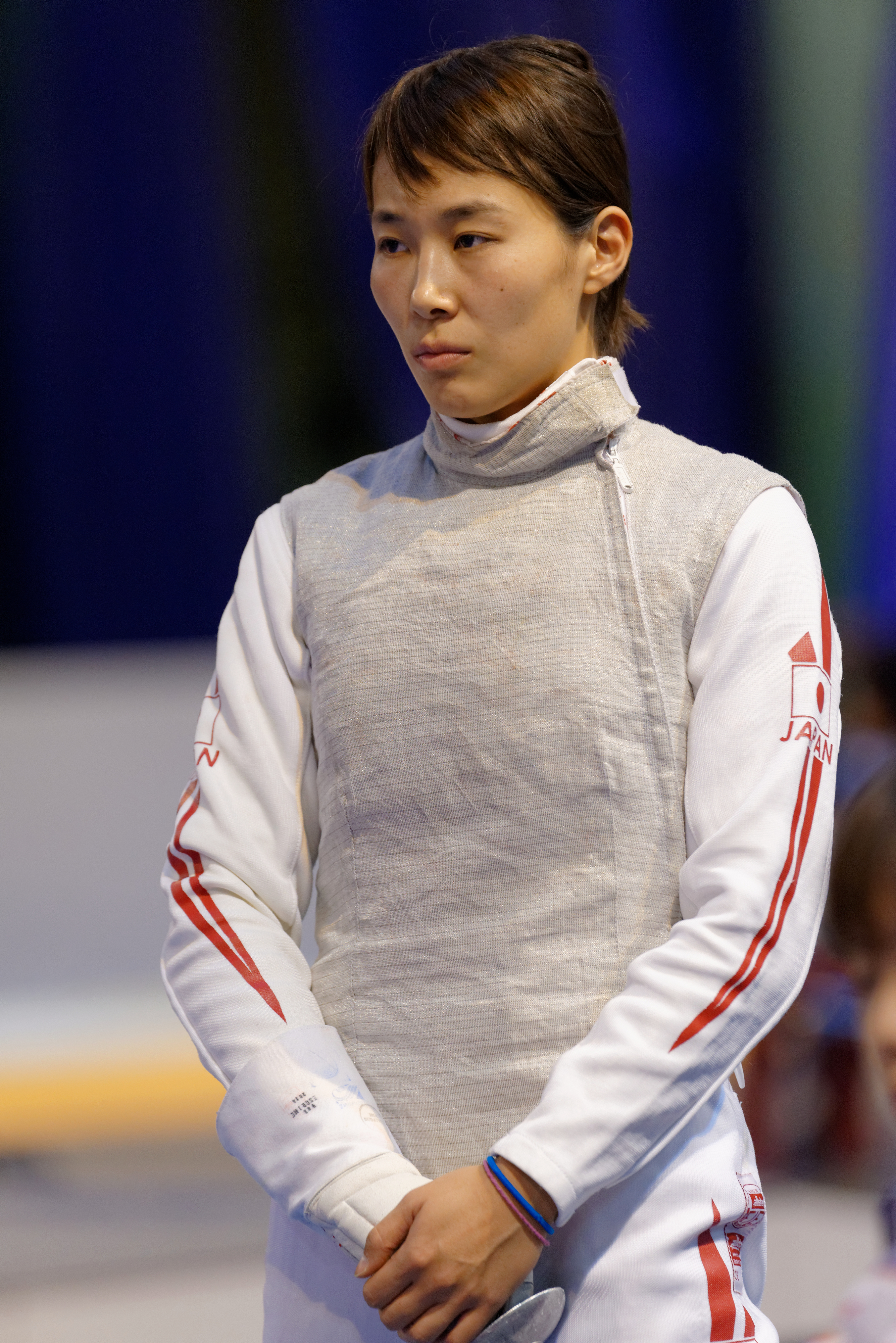 Japan's Nishioka Shiho at the Saint-Maur Women's Foil World Cup.